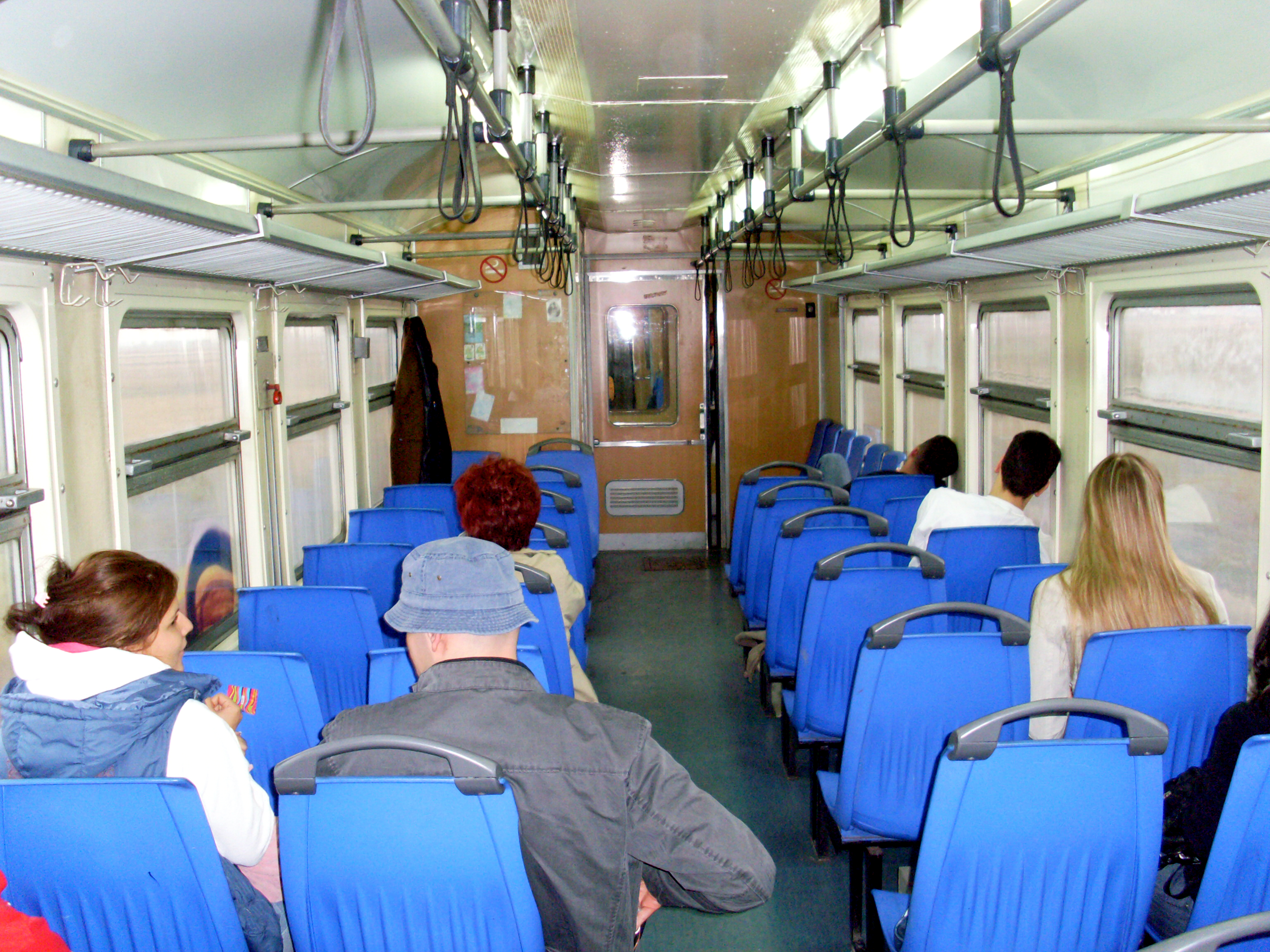 Interior of the RVR 412/416 commuter train on the relation Stara Pazova - Pancevo